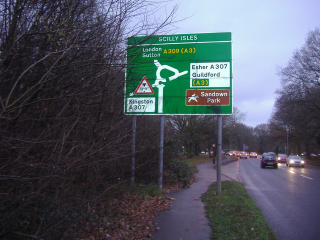 Scilly Isles sign Hampton Court Way, Thames Ditton, Surrey